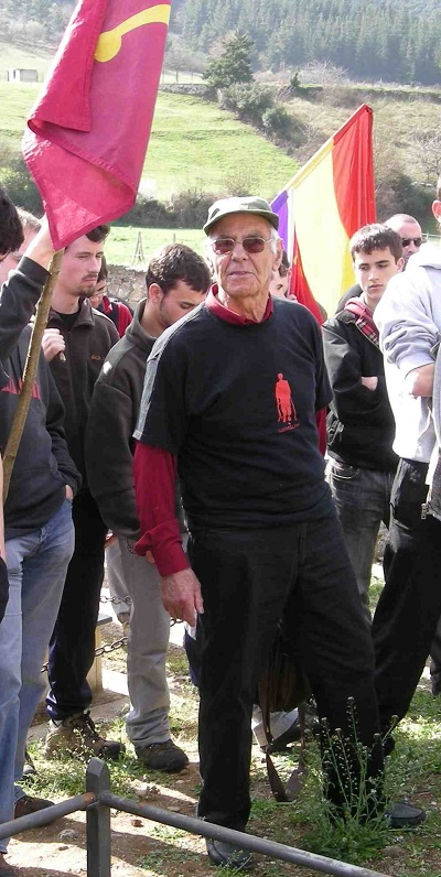 Spanish Maquis Jesús de Cos Borbolla.